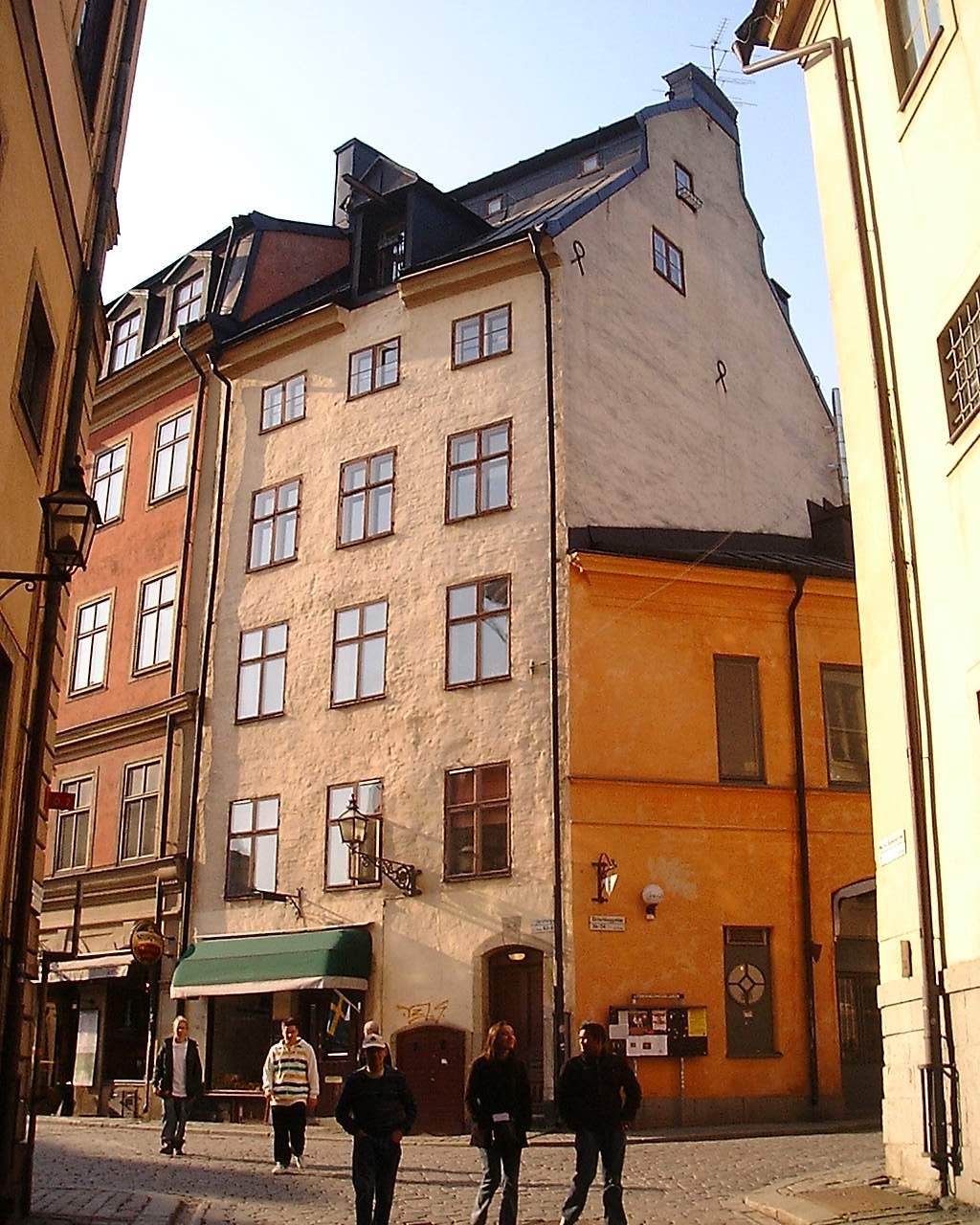 Façade of 85, Järntorget (Trivia 3) viewed from Norra Bankogränd, Gamla stan, Stockholm. This is the Creep-in Tavern (Krogen Kryp-in) of Carl Michael Bellman's famous Fredman's Epistle no. 23, Ack du min Moder, "Som är ett soliloquium, då Fredman låg vid krogen Kryp-In, gent emot bankohuset, en sommarnatt år 1768" (Which is a soliloquy, where Fredman lay by the Creep-in Tavern, right opposite the bank house, one summer night in the year 1768).